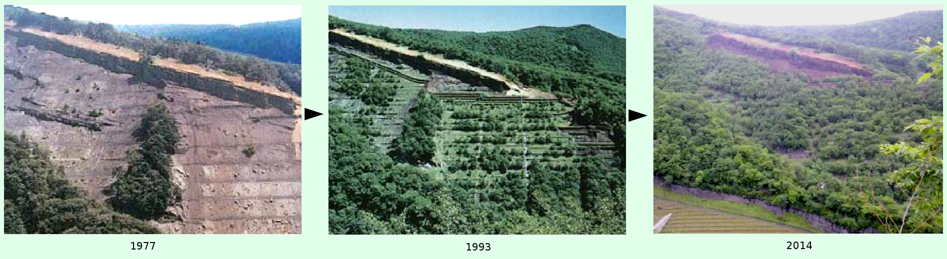 Japan: Ōnagi's afforestation on mount Nantai south-east slope (Nikkō city, Tochigi prefecture).